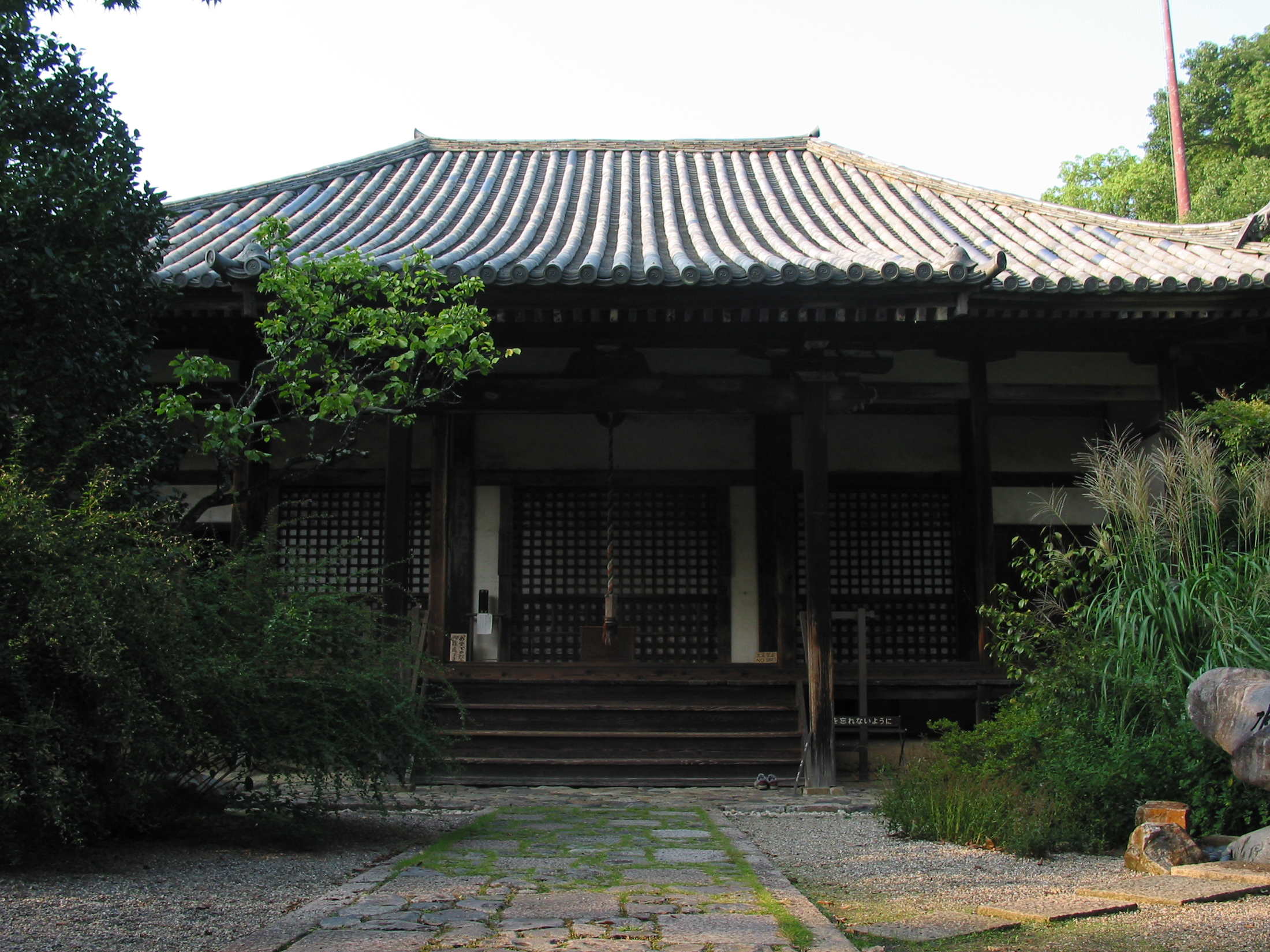 Hondō of Byakugō-jiByakugōji Nara-City Nara Pref., Japan.